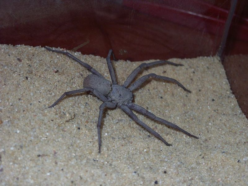 Sicarius levii female